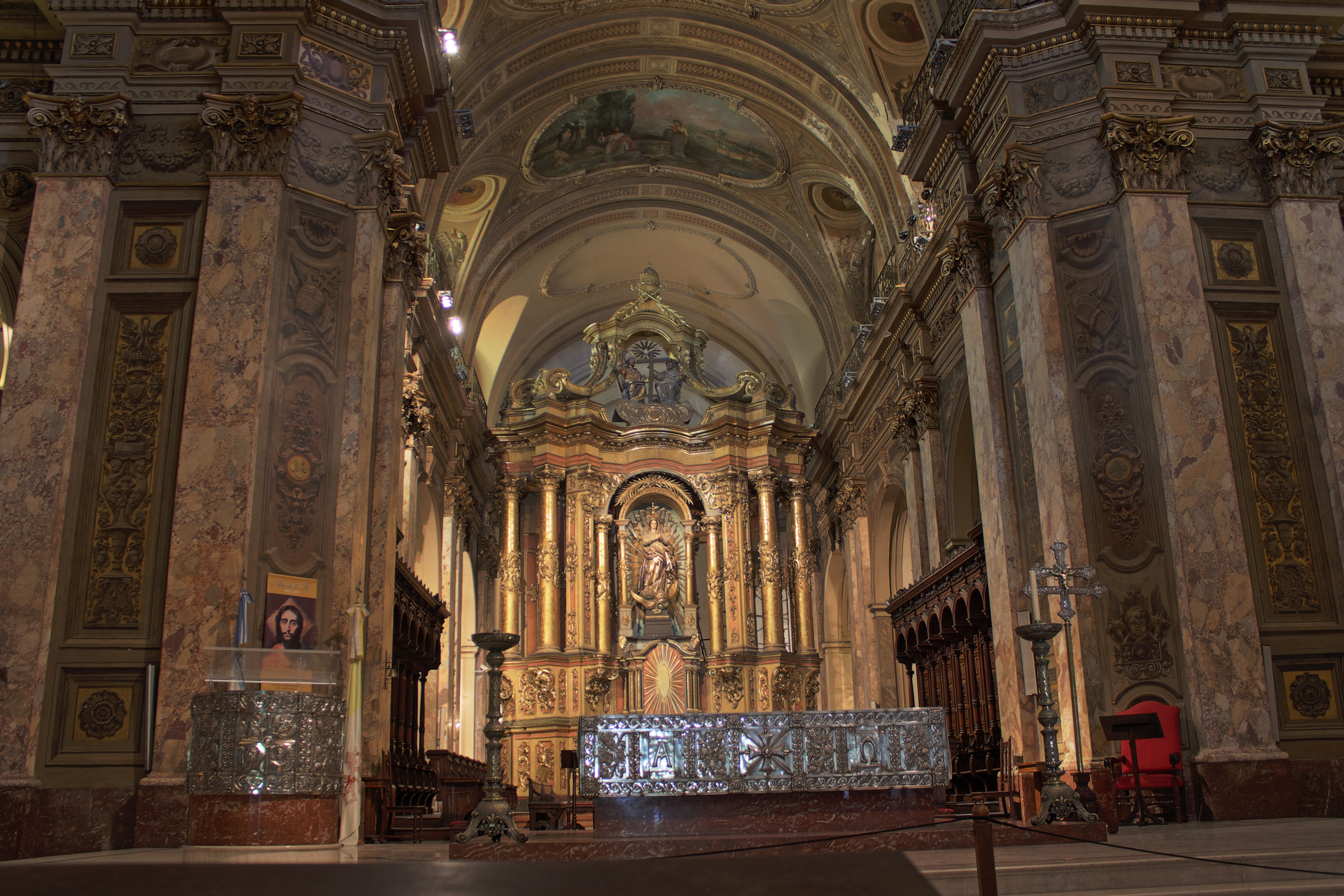 Buenos Aires Metropolitan Cathedral. Main chapel & altarpiece.